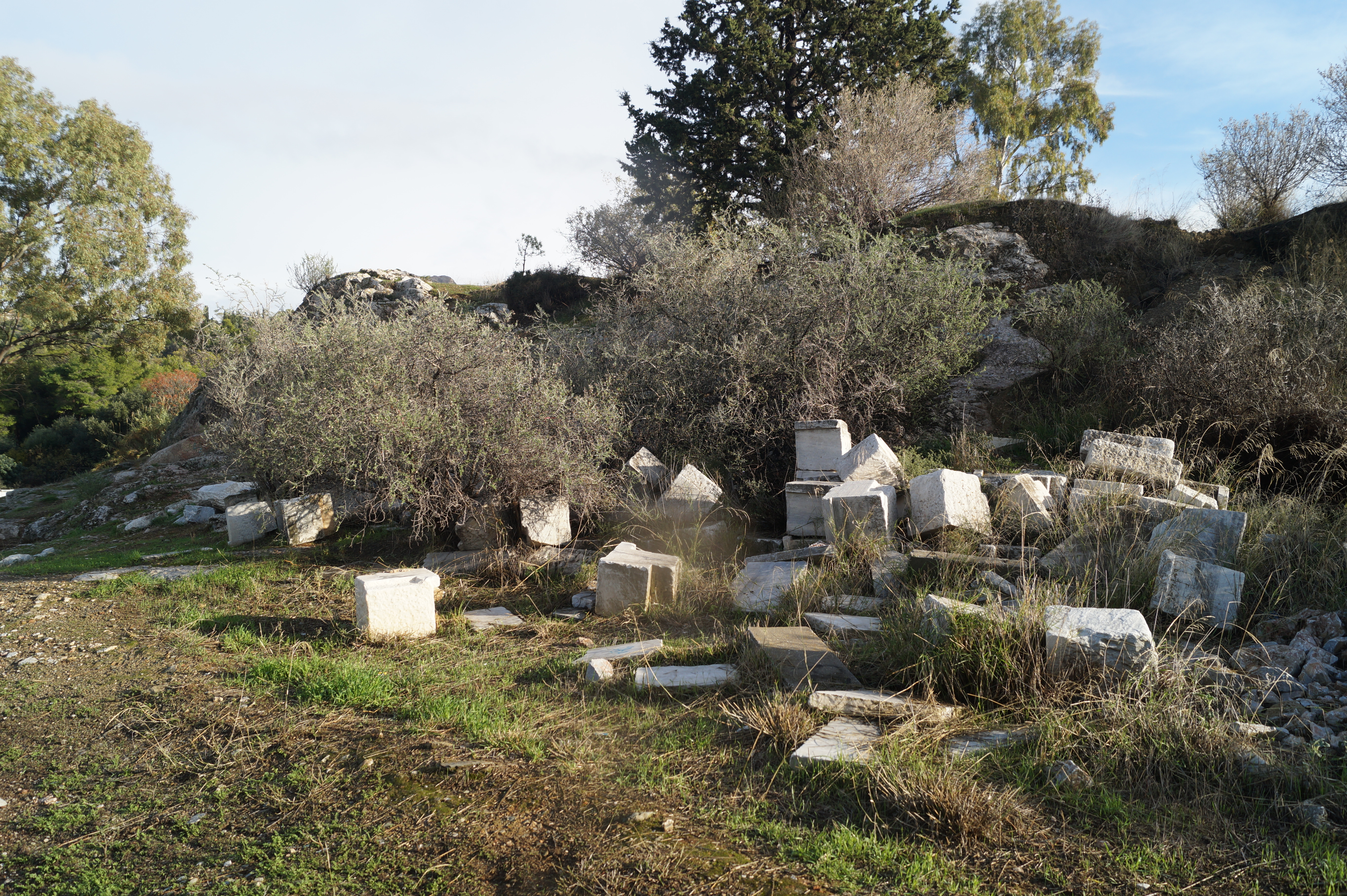 Athens, Greece: Ancient deme of Koile. Marble boulder of the modern Bastia-theatre (built in 1939) which was destroyed in 2001.